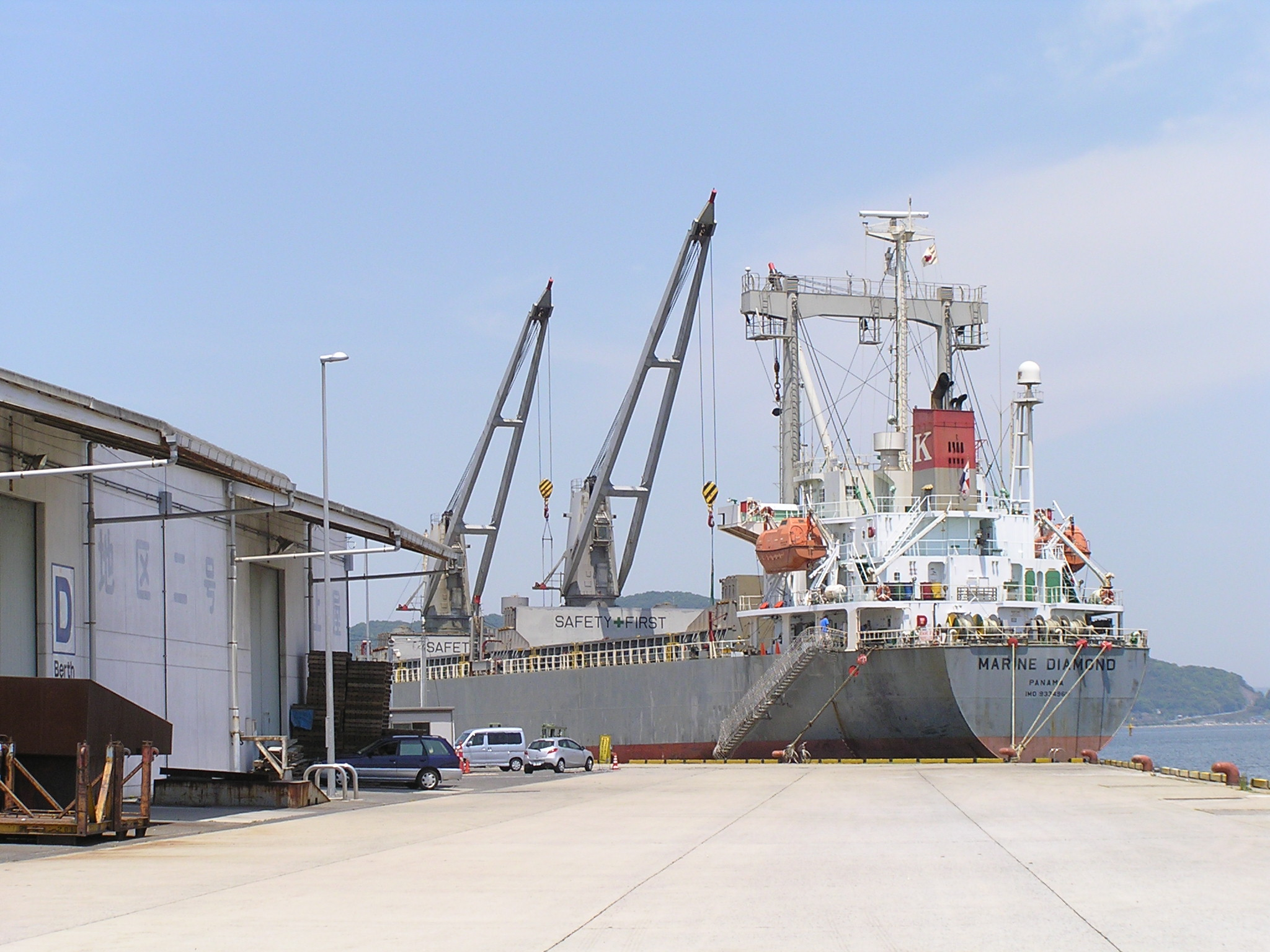 Public wharf in Uno harbors Tai district